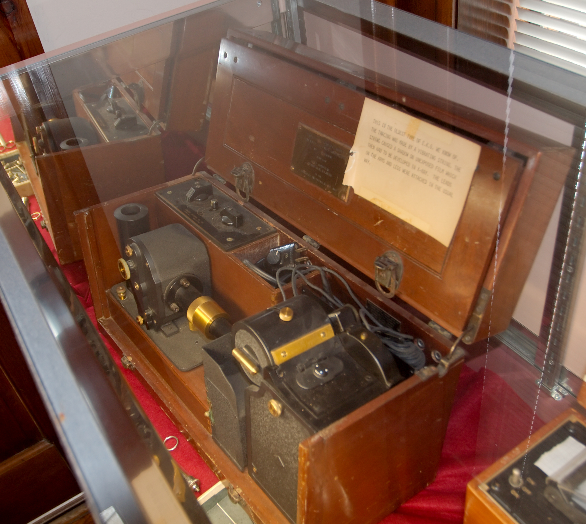 One of the earliest EKG machines, in the Champaign County Historical Museum, Champaign, IL